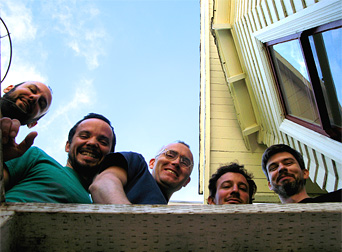 A photo of the band Tarentel, five men looking down at the camera over a ledge or balcony.